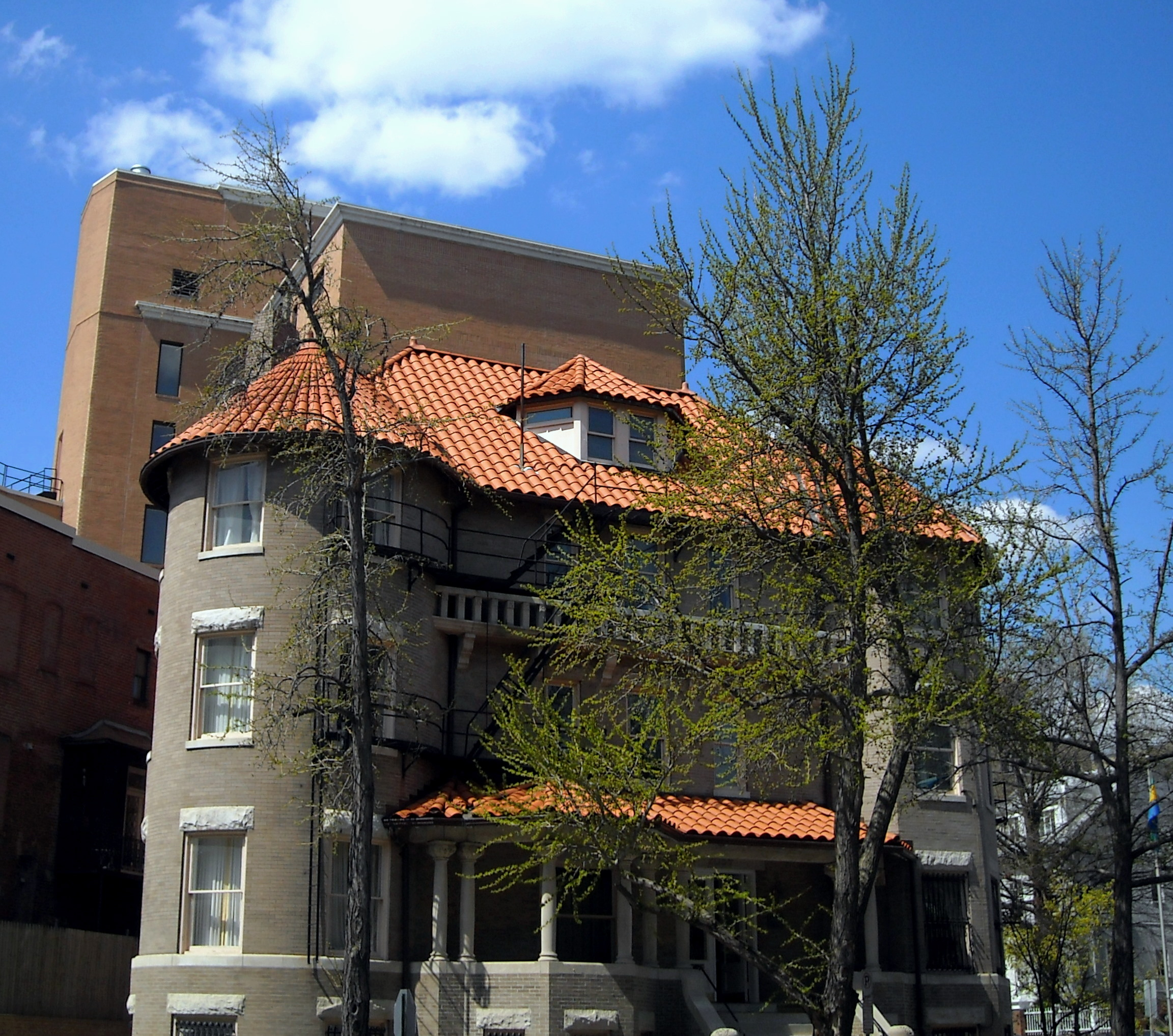 The Embassy of the Gabonese Republic located at 2034 20th Street, NW in the Adams Morgan neighborhood of Washington The Mediterranean Revival style building is a contributing property to the Kalorama Triangle Historic District and valued at $2,238,760. Notable past owners include the government of Argentina (Air attaché), government of Ecuador (chancery), President Manuel Roxas (serving as Chairman of the Philippine Mission), Brigadier General Henry Jervey, and Gertrude F. Wedderburn (mother of Charles F. Wedderburn and sponsor of the USS Wedderburn).